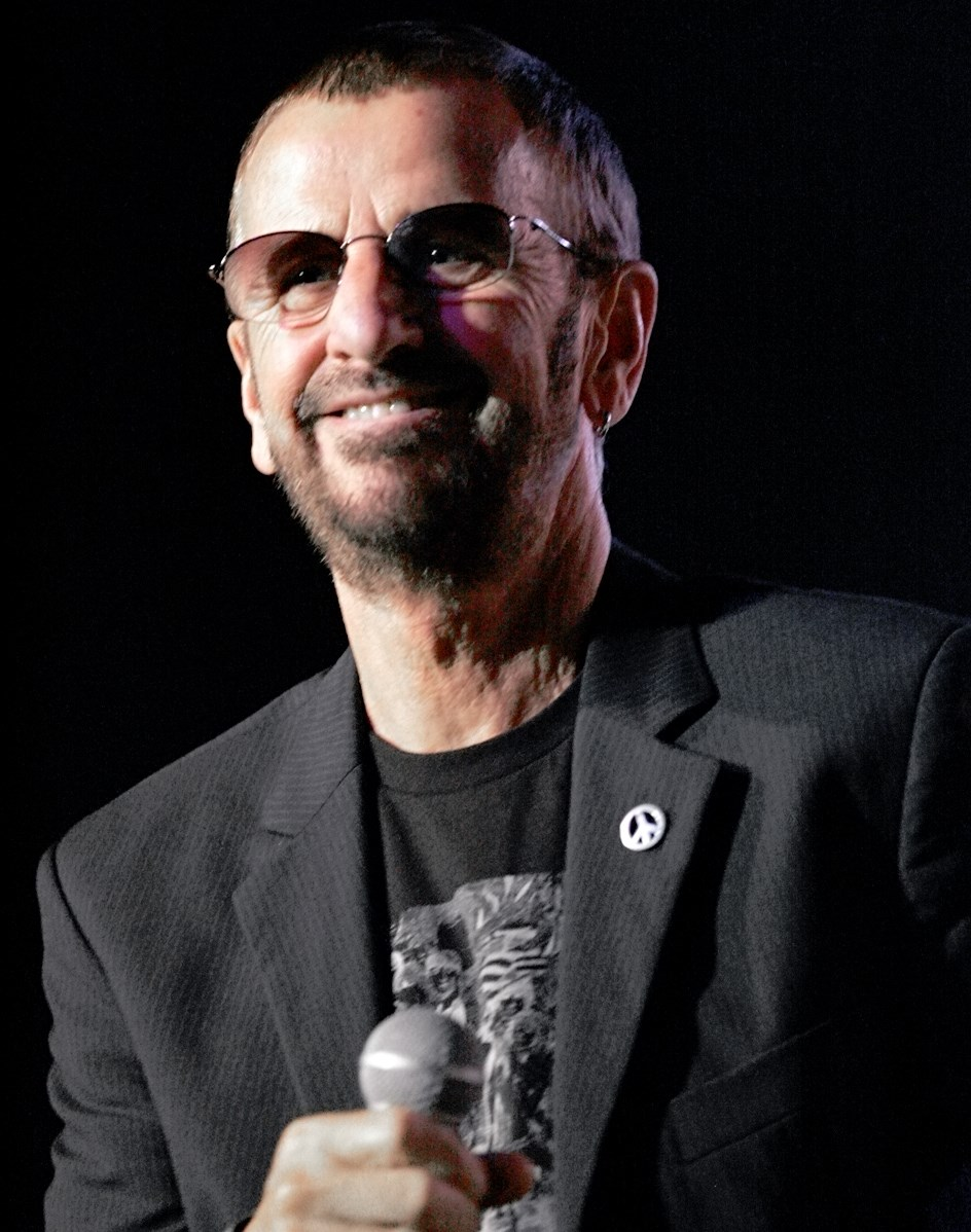 Ringo Starr and his All-Starr Band - Hordern Pavilion, Sydney, Australia.